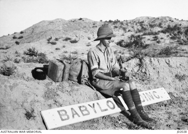 Photograph of Sapper Eric Keast Burke, taken at the site of the old Babylon Railway Station. He served in the 1st Australian Wireless Signal Squadron, Mesopotamian Expeditionary Force from 1917-1920 and this photograph was taken during this time.